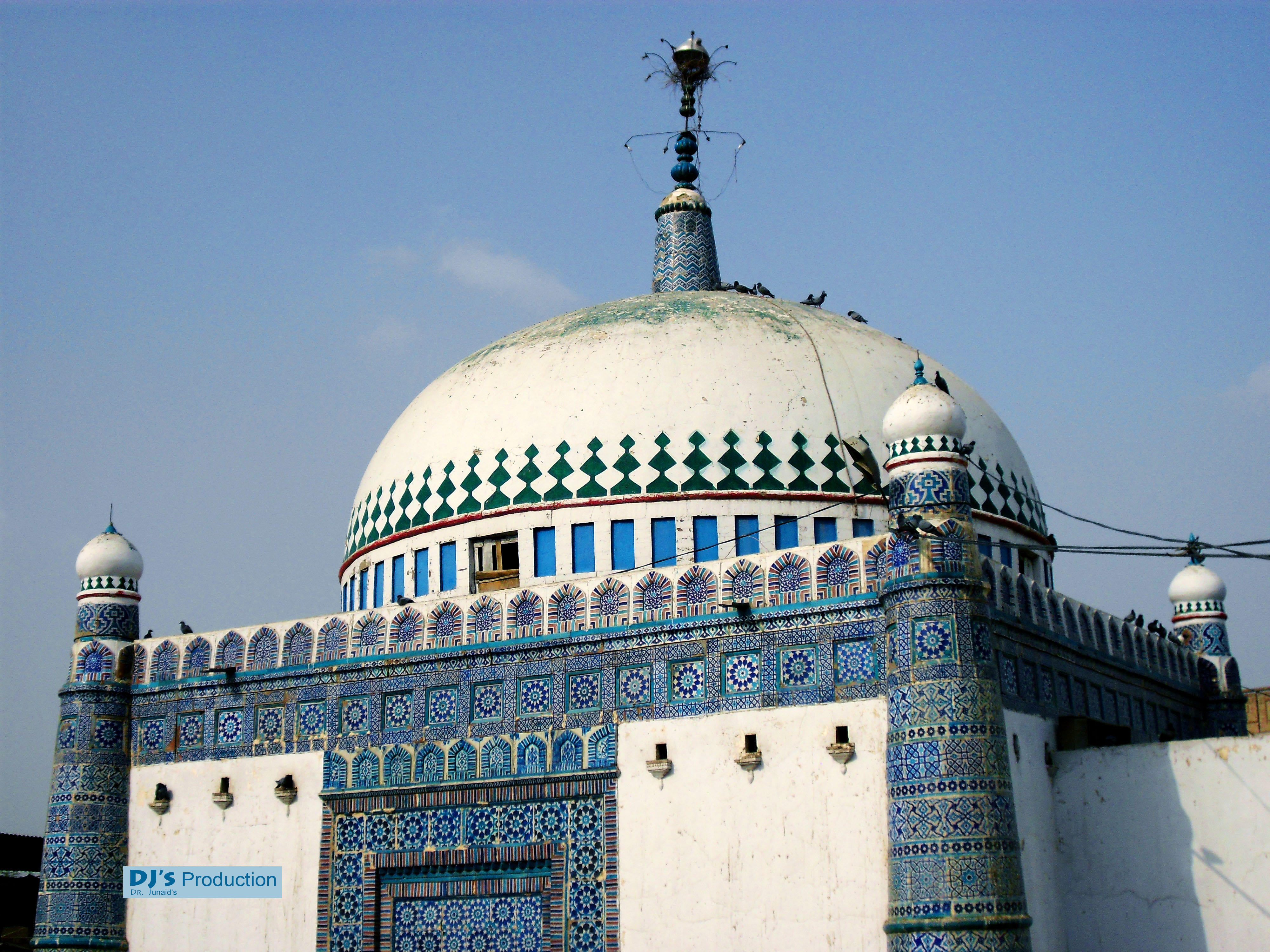 Shrine of Khawaja Awais Kagha This is a photo of a monument in Pakistan identified as the PB-P-162